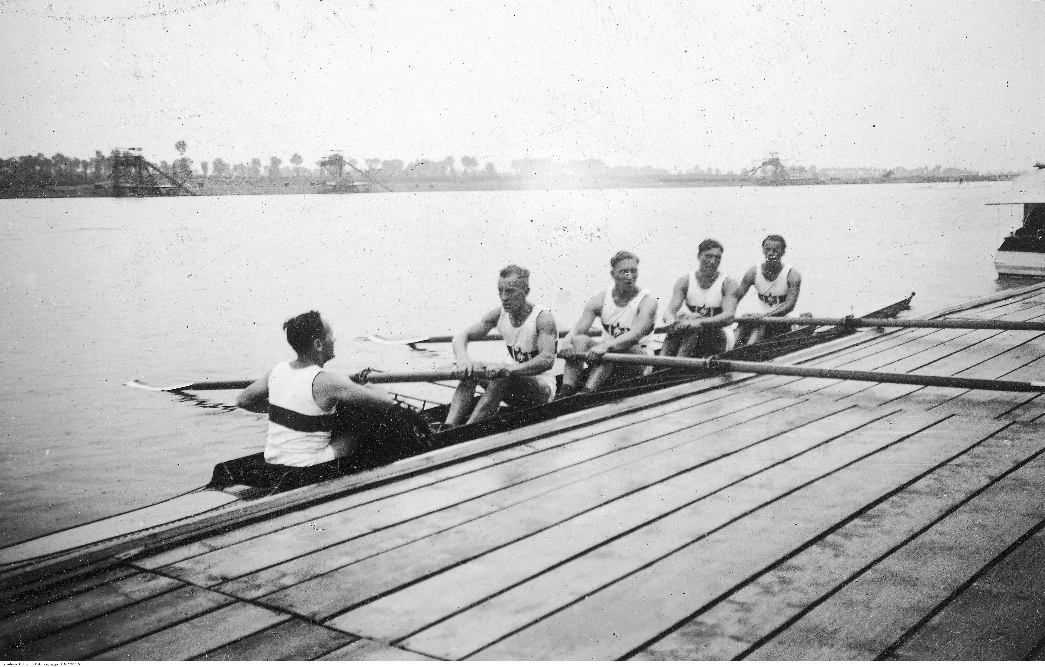 European Rowing Championships in Milan: German coxed four - members of Ruder Verein Wratislavia Breslau: Ulrich Kleiner, Heinz Lückenga, Walter Gotthardt and Paul Jung; coxswain Fritz Bauer